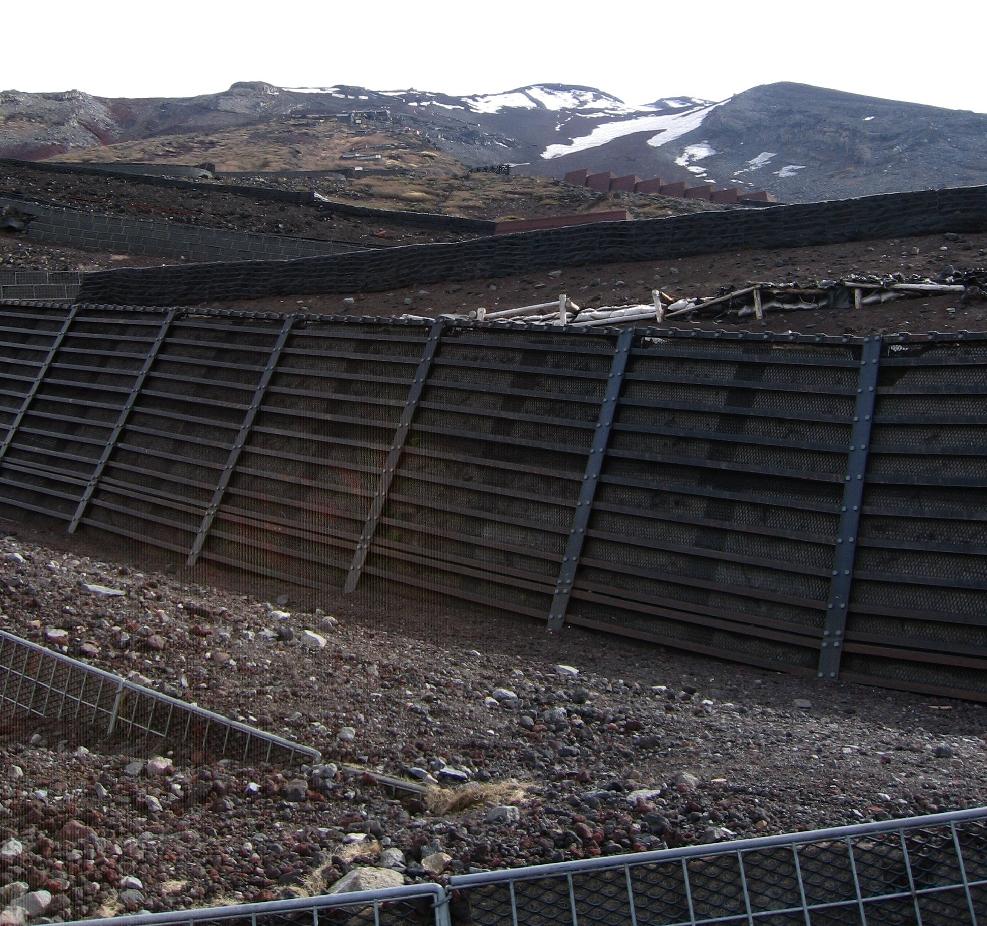 Switchbacks with retaining walls along the trail up Mount Fuji. Works like this one help prevent erosion from the 200,000 people who climb Mt. Fuji each year.